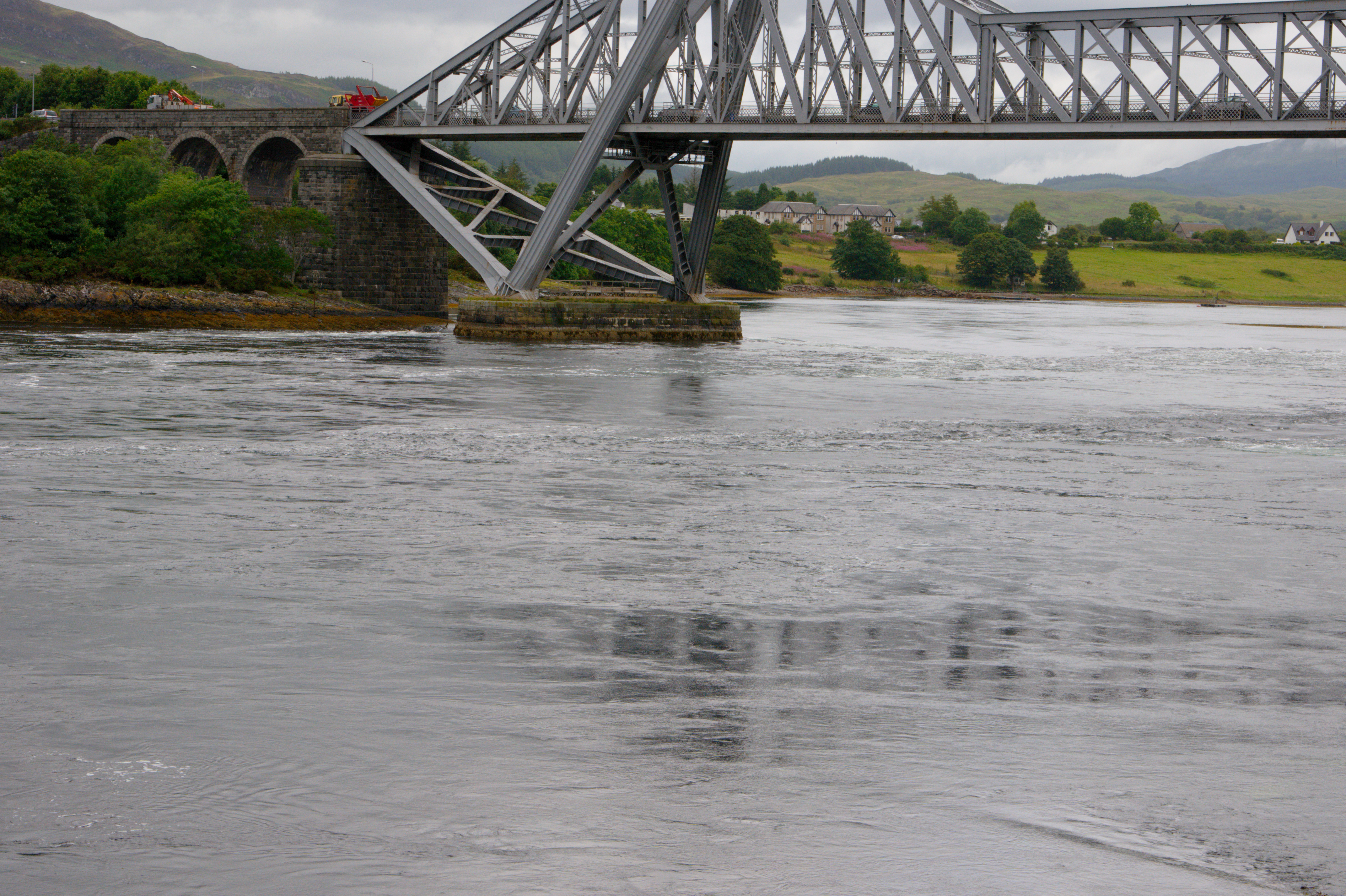 Opposite currents at the Falls of Lora. Whereas from the outside the rising tide is already flowing in – visible in the low part of the picture – from the Loch Etive there is still water flowing out vigorously – see middle of picture.